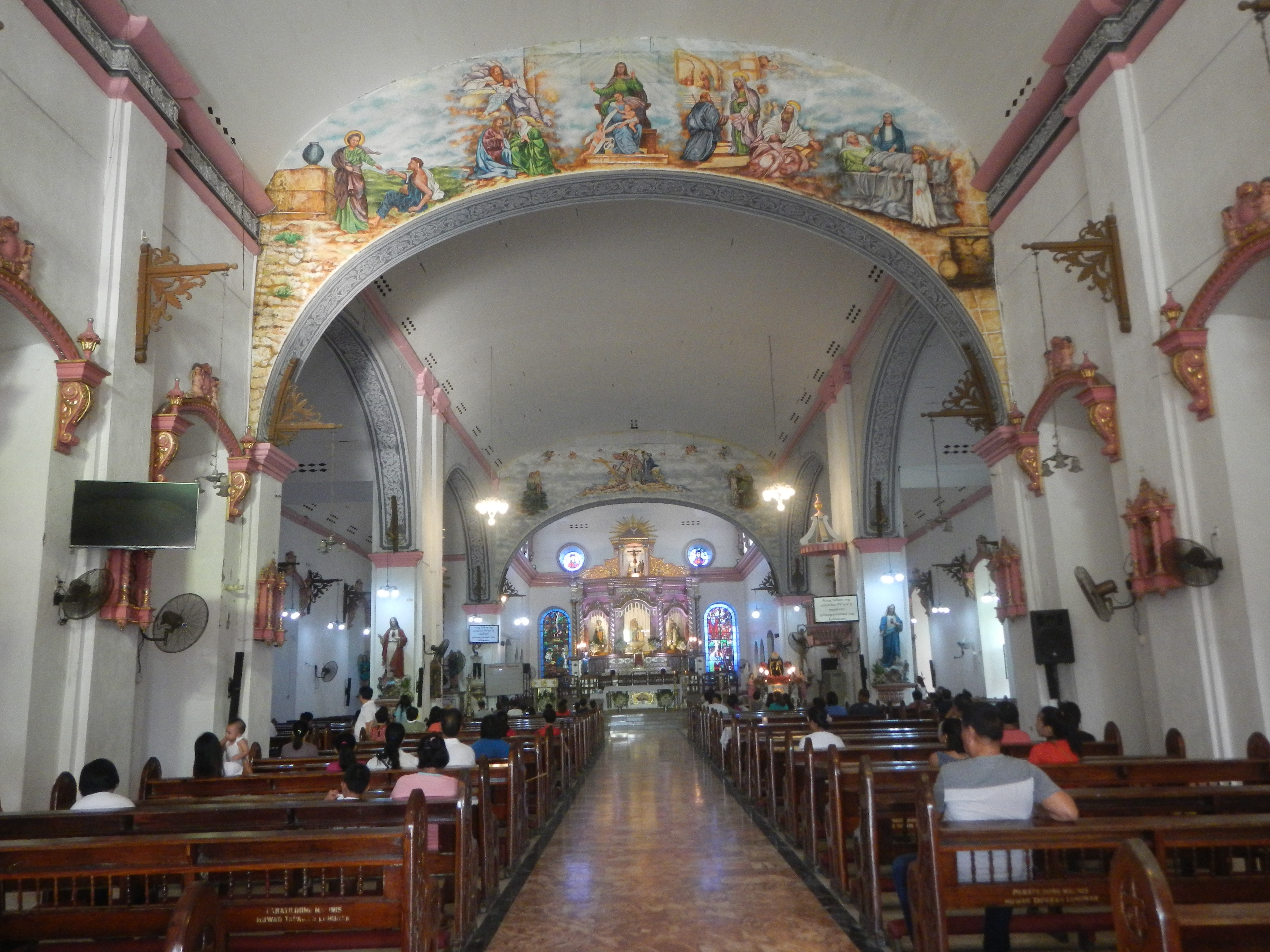 Saint Anne Catholic School (Hagonoy, Bulacan) Celestino Rodriguez monument (Hagonoy, Bulacan) Parish Priest of Hagonoy 1936-1963 Established St. Mary's Academy (Hagonoy, Bulacan) National Shrine of Saint Anne Santo Niño, Hagonoy, Bulacan Municipal Road Hagonoy, Bulacan Hagonoy, Bulacan Municipal Park and Fountain Fire razes Hagonoy, Bulacan Market Aug 18, 2010 Burned Old Hagonoy Market Hagonoy Public Market, Commercial Complex & Punduhang Bayan (San Sebastian, Hagonoy, Bulacan) Hagonoy River (Bulacan) Upgrading-Concreting of F. L. Sebastian Street & M. H. del Pilar Street (San Sebastian-Santo Niño, Hagonoy, Bulacan) San Sebastian-San Jose, Hagonoy, Bulacan Bridge; Town Proper Barangays Santo Niño 14°50'26"N 120°44'33"E San Sebastian 14°49'42"N 120°44'14"E San Nicolas 14°48'58"N 120°43'50"E Hagonoy, Bulacan (Note: Judge Florentino Floro, the owner, to repeat, Donor Florentino Floro of all these photos hereby donate gratuitously, freely and unconditionally all these photos to and for Wikimedia Commons, exclusively, for public use of the public domain, and again without any condition whatsoever).